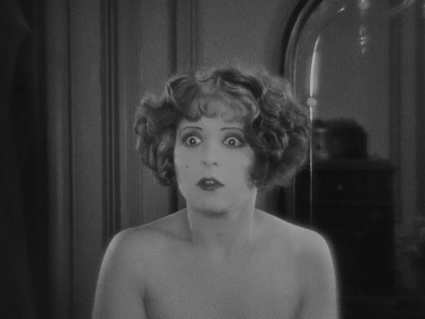 Cropped screenshot of Clara Bow from the trailer of the film Wings (1927).